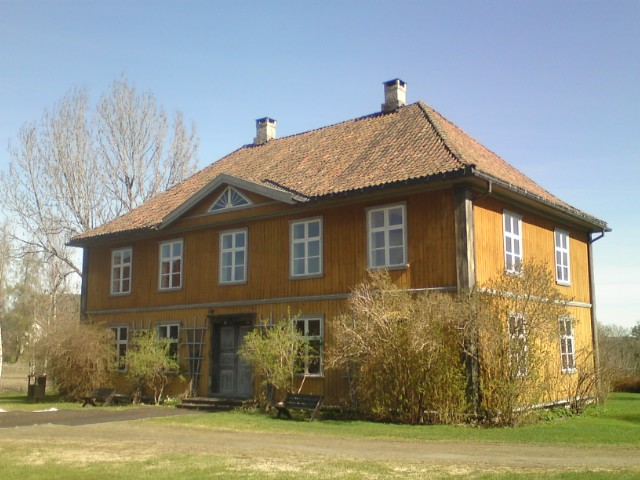 Nyfossum, spring 2012